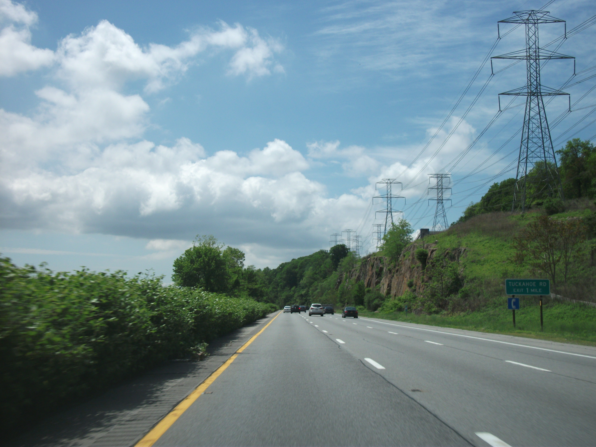 The Sprain Brook Parkway soutbhound one mile north of the junction with Tuckahoe Road in Yonkers, New York.